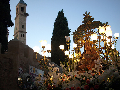 Virgen de la Peana (Borja)